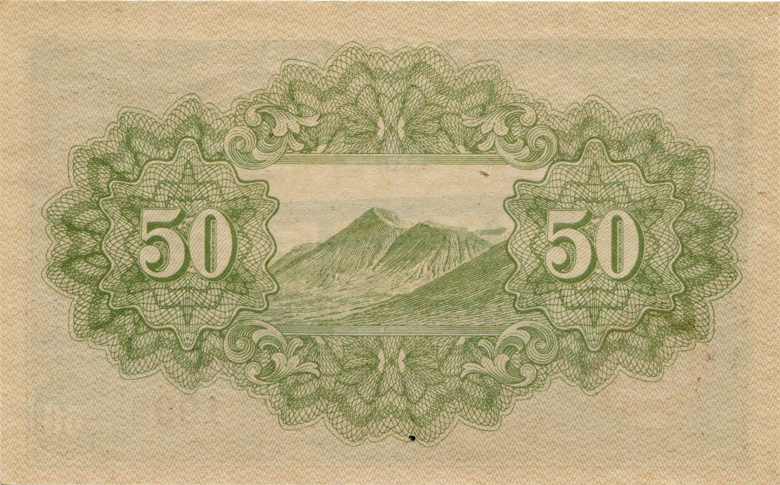 Japanese government small-face-value paper money, "Yasukuni" 50 Sen (=1/2 Yen). Mt. Takachiho-no-mine, Miyazaki and Kagoshima Prefecture. First issued in 1942. Expired in 1948. 65mm x 105mm.